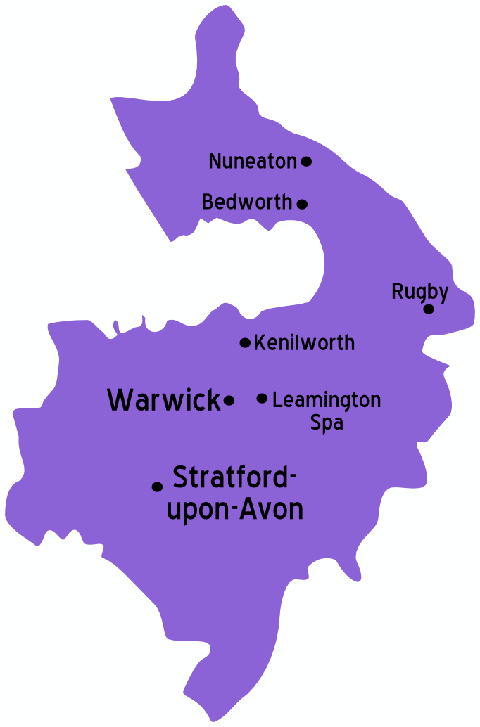 Map of Warwickshire Source: :Image:UK map.svg map: United Kingdom Map of: United Kingdom